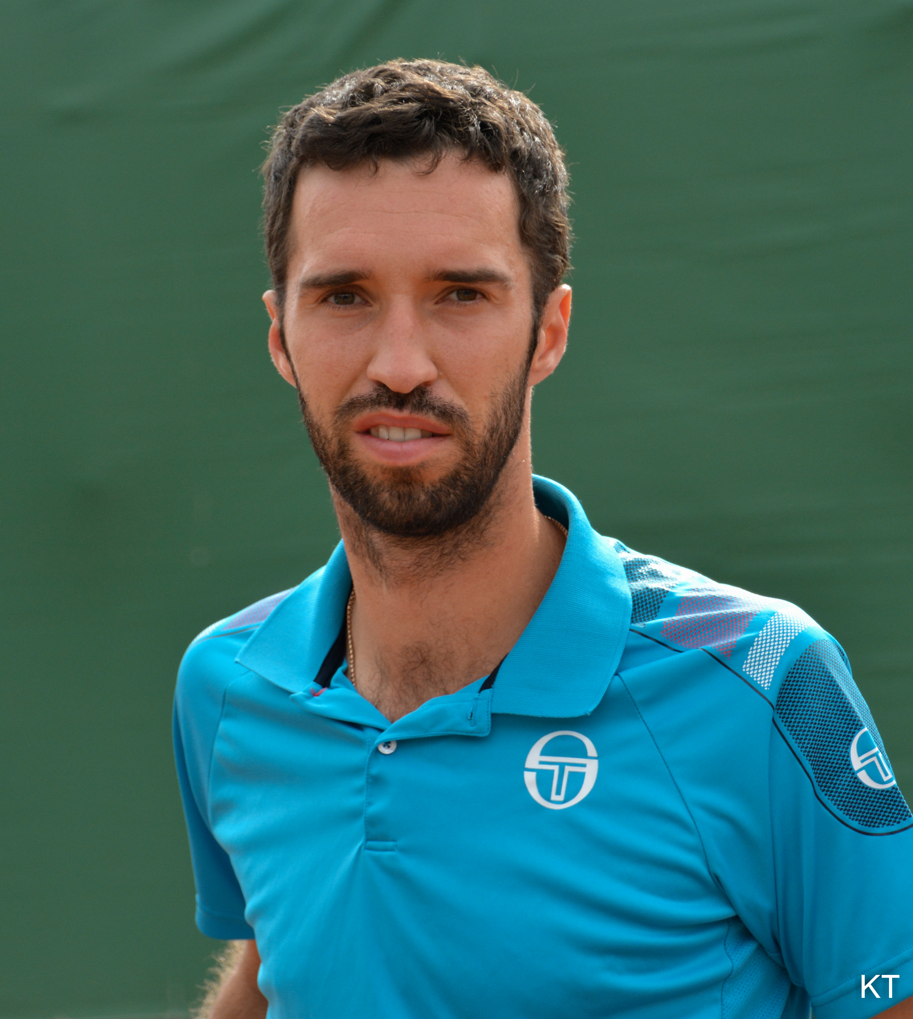 This is him smiling (I think) for a posed photo. Day 3 of Roland Garros 2015.